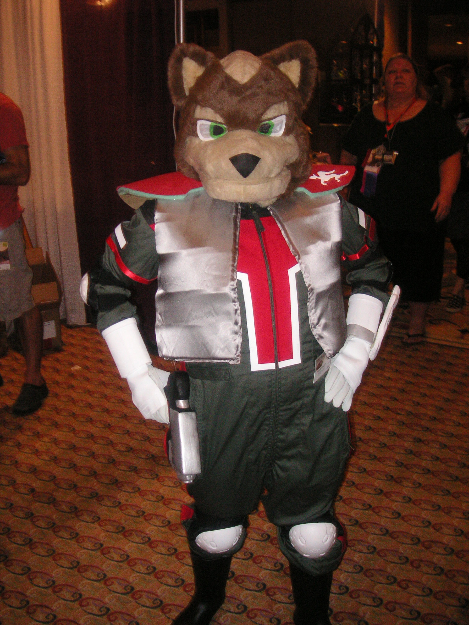 Star Fox Awesome